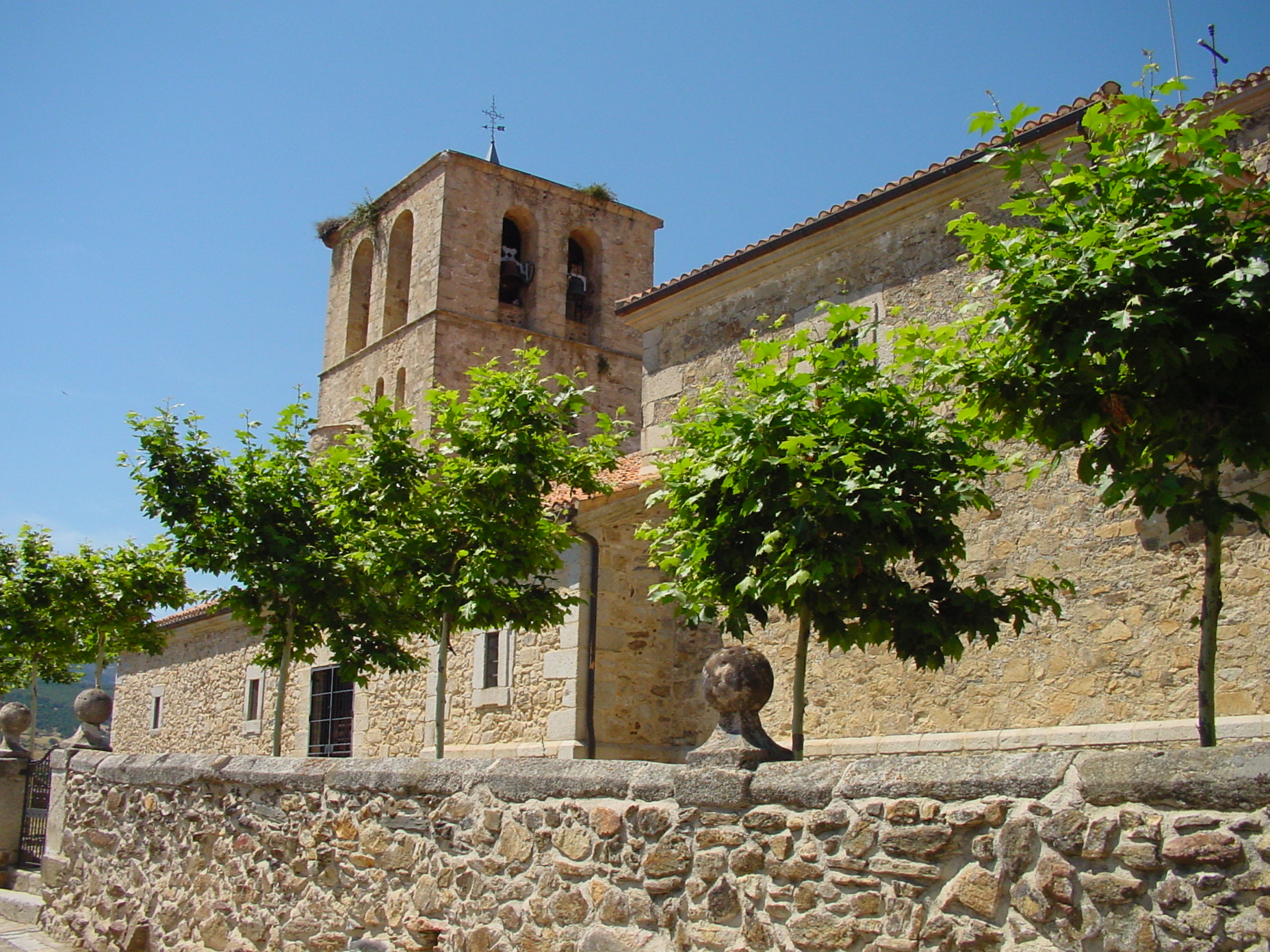 Iglesia de Braojos de la Sierra